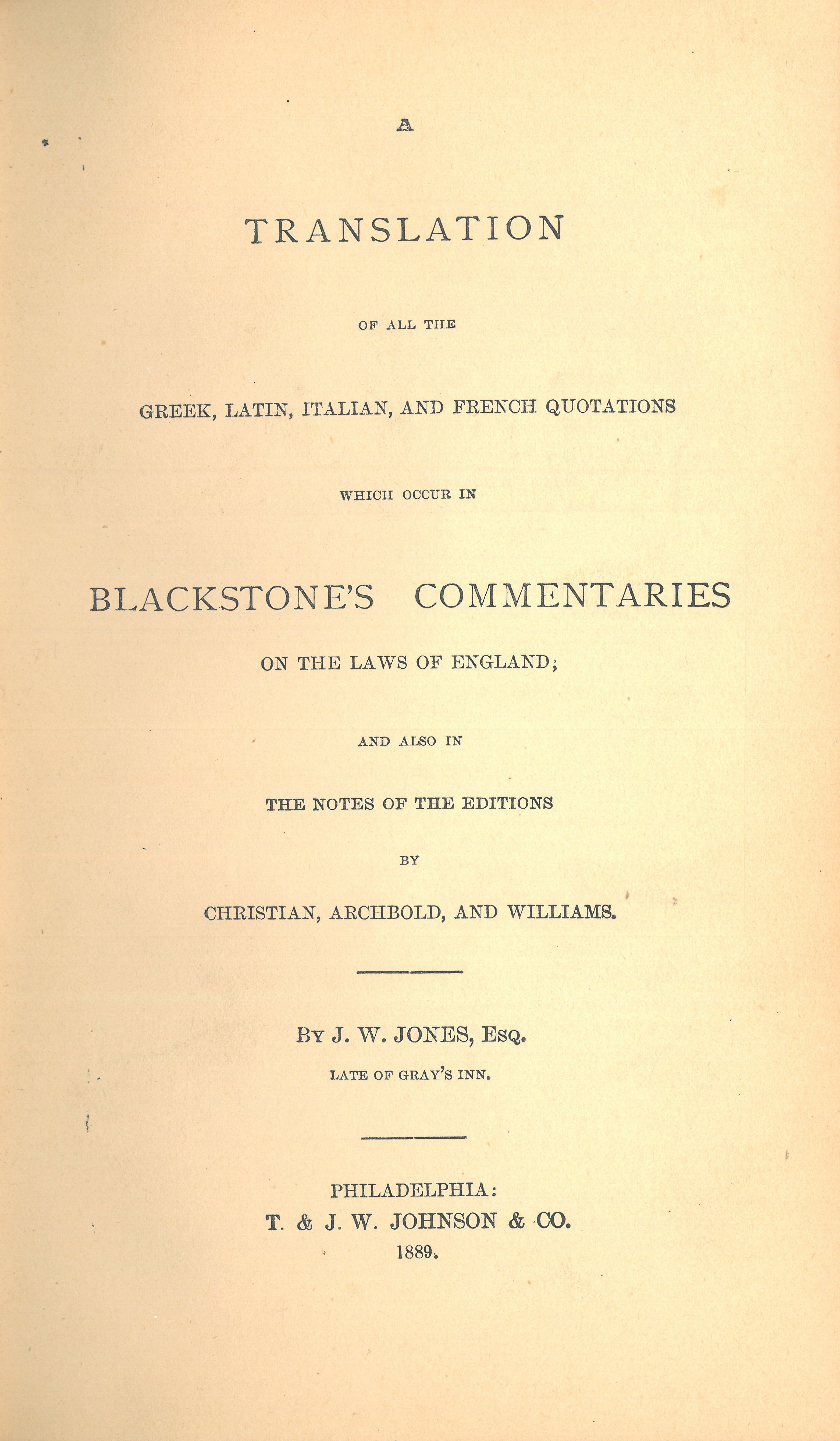 Title page of J[ohn] W[inter] Jones (1889) A Translation of All the Greek, Latin, Italian and French Quotations which Occur in Blackstone’s Commentaries on the Laws of England; and also in the Notes of the Editions by Christian, Archbold, and Williams, Philadelphia, Penn.: J. W. Johnson & Co. OCLC: 58547017.